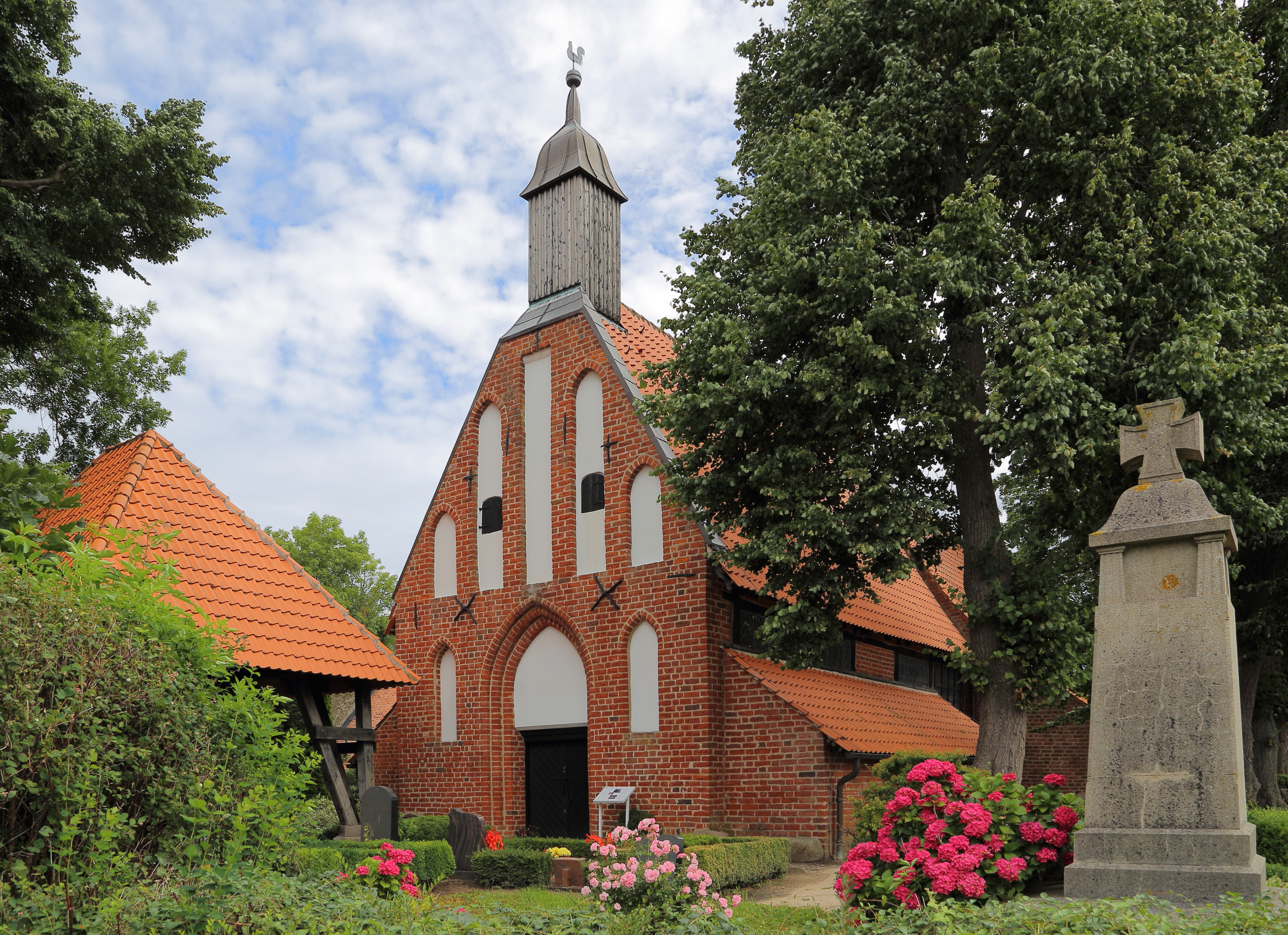 The Protestant Saint Mary Church (St.-Marien-Kirche) in Ummanz-Waase, Landkreis Vorpommern-Rügen, Mecklenburg-Vorpommern, Germany. The churchis a listed cultural heritage monument.